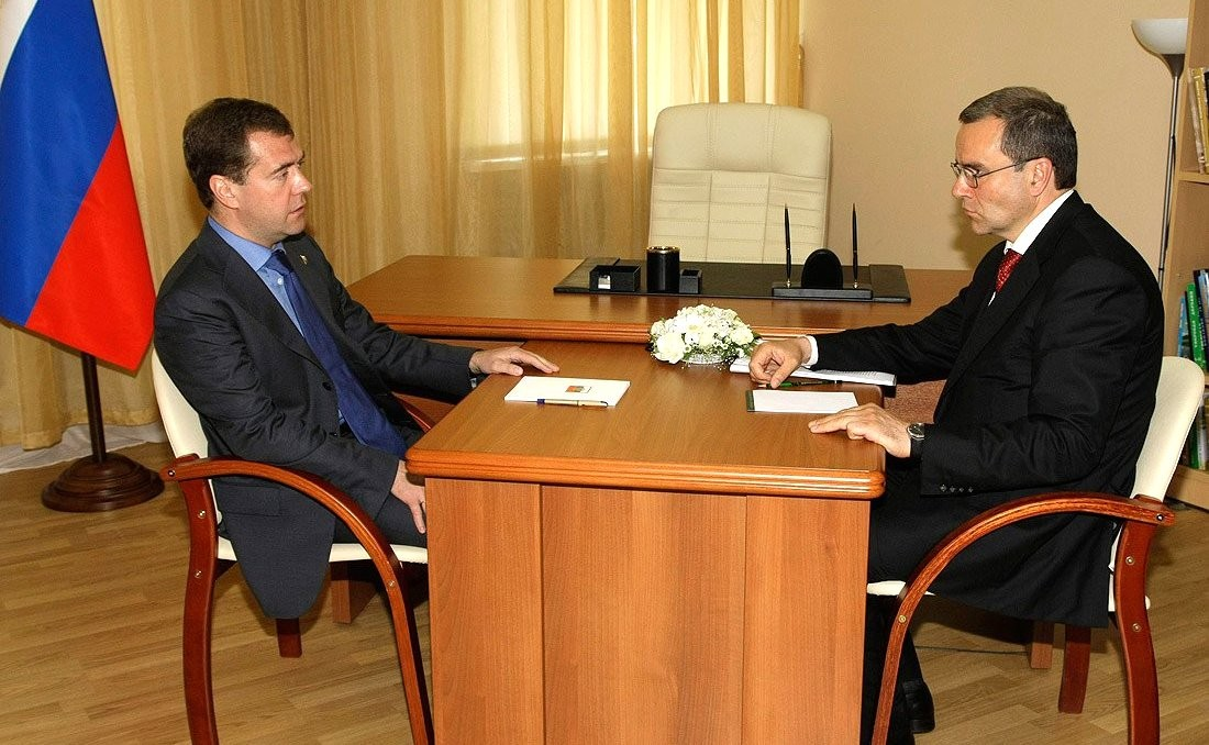 Dmitry Medvedev in Tver Oblast